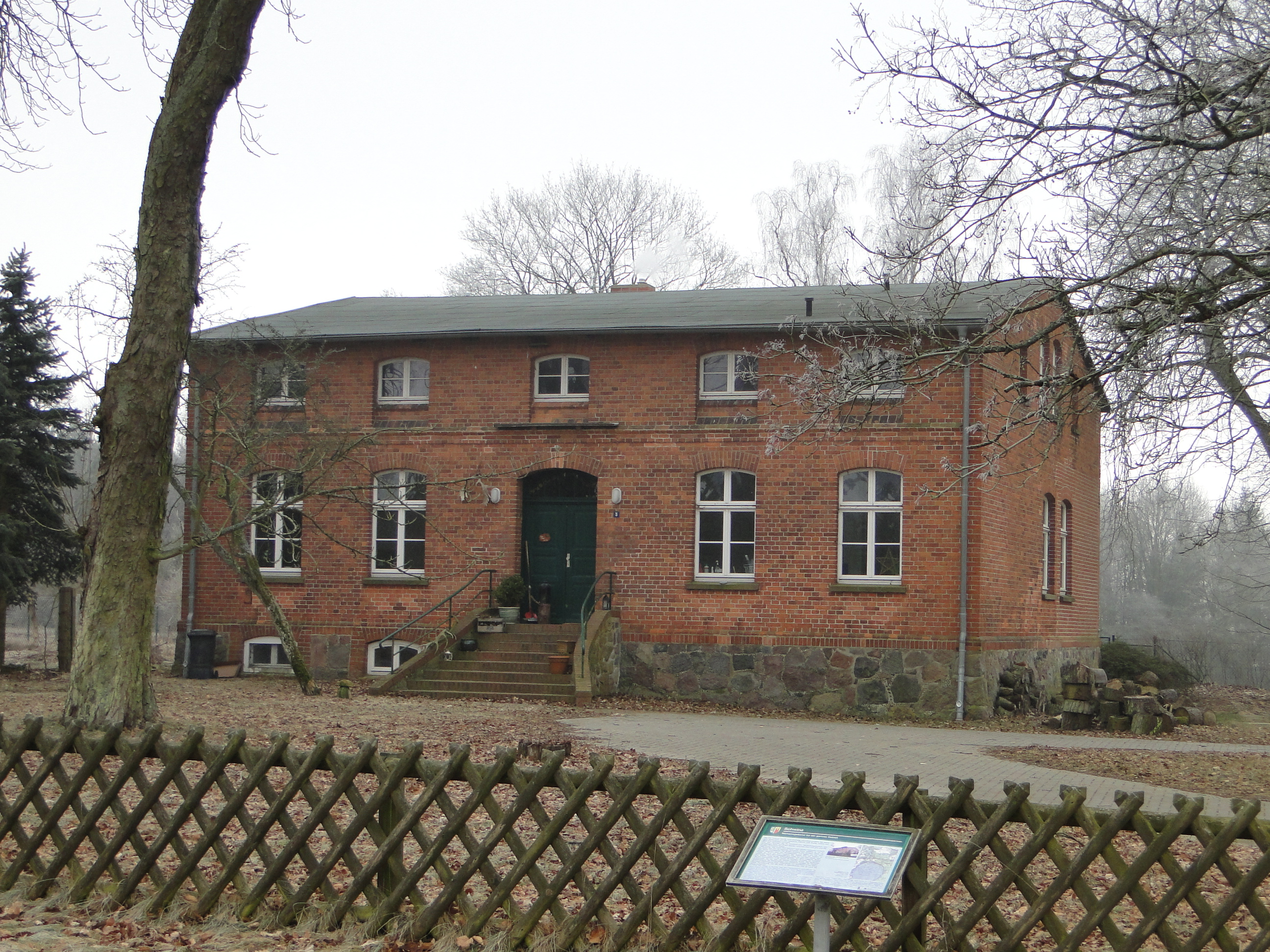 Former forest building in Alt Schwinz, district Parchim, Mecklenburg-Vorpommern, Germany